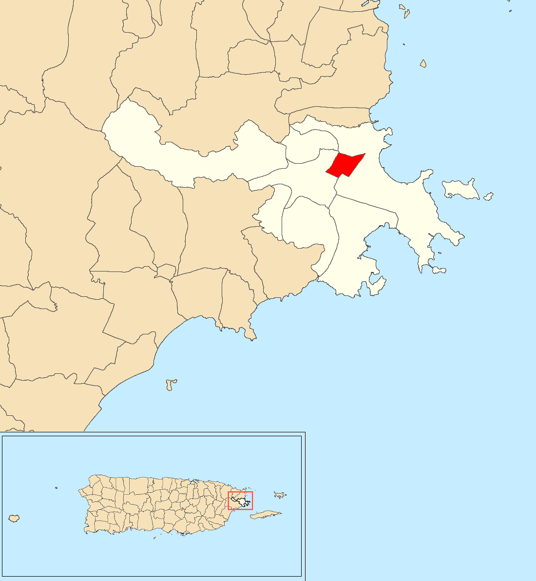 Ceiba barrio-pueblo, Ceiba, Puerto Rico locator map